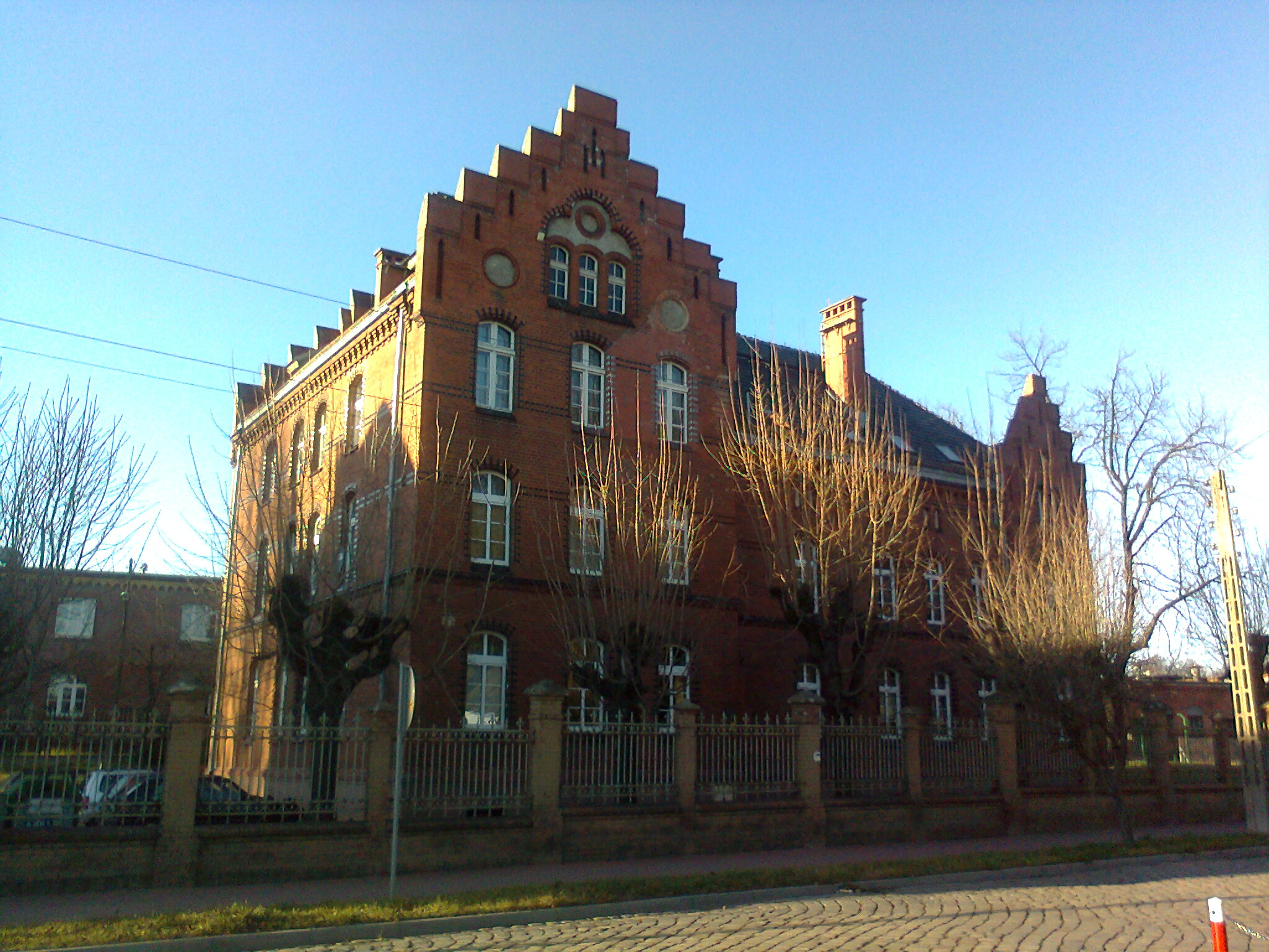 2B Legionów Street in Prudnik